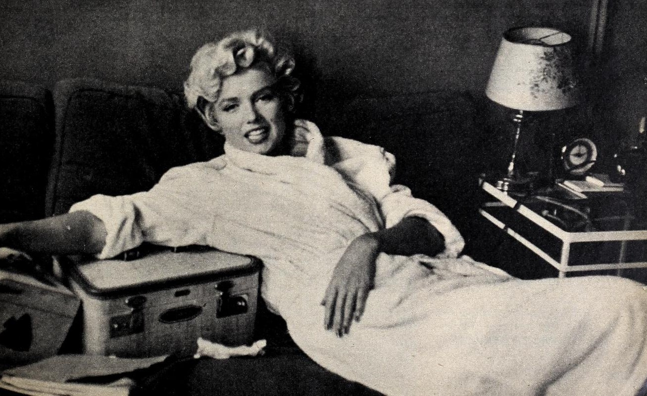 Marilyn Monroe by Myron Ehrenberg.